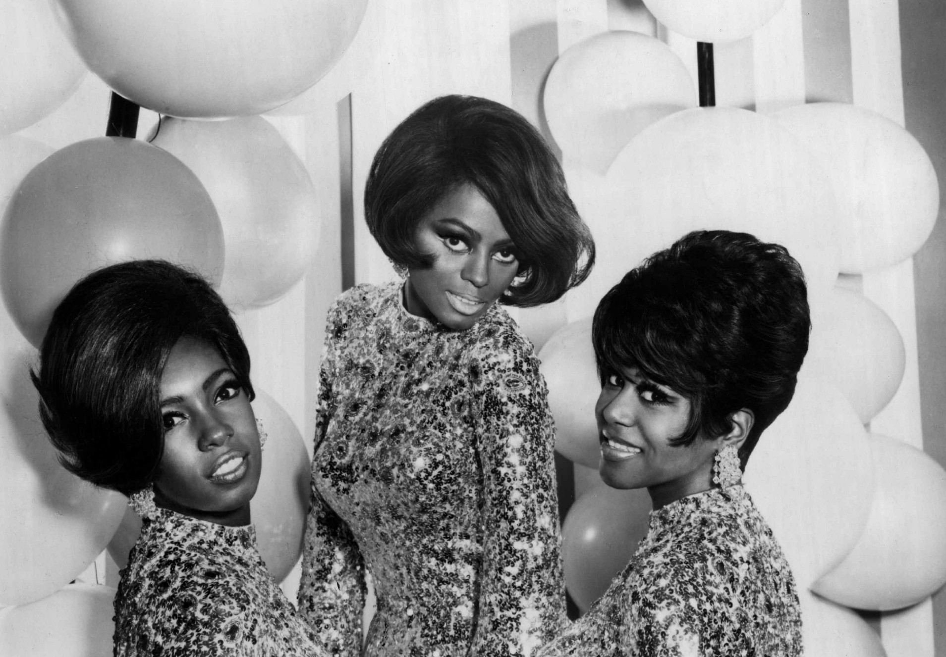 Photo of The Supremes in 1967. From left-Mary Wilson, Diana Ross and Cindy Birdsong.